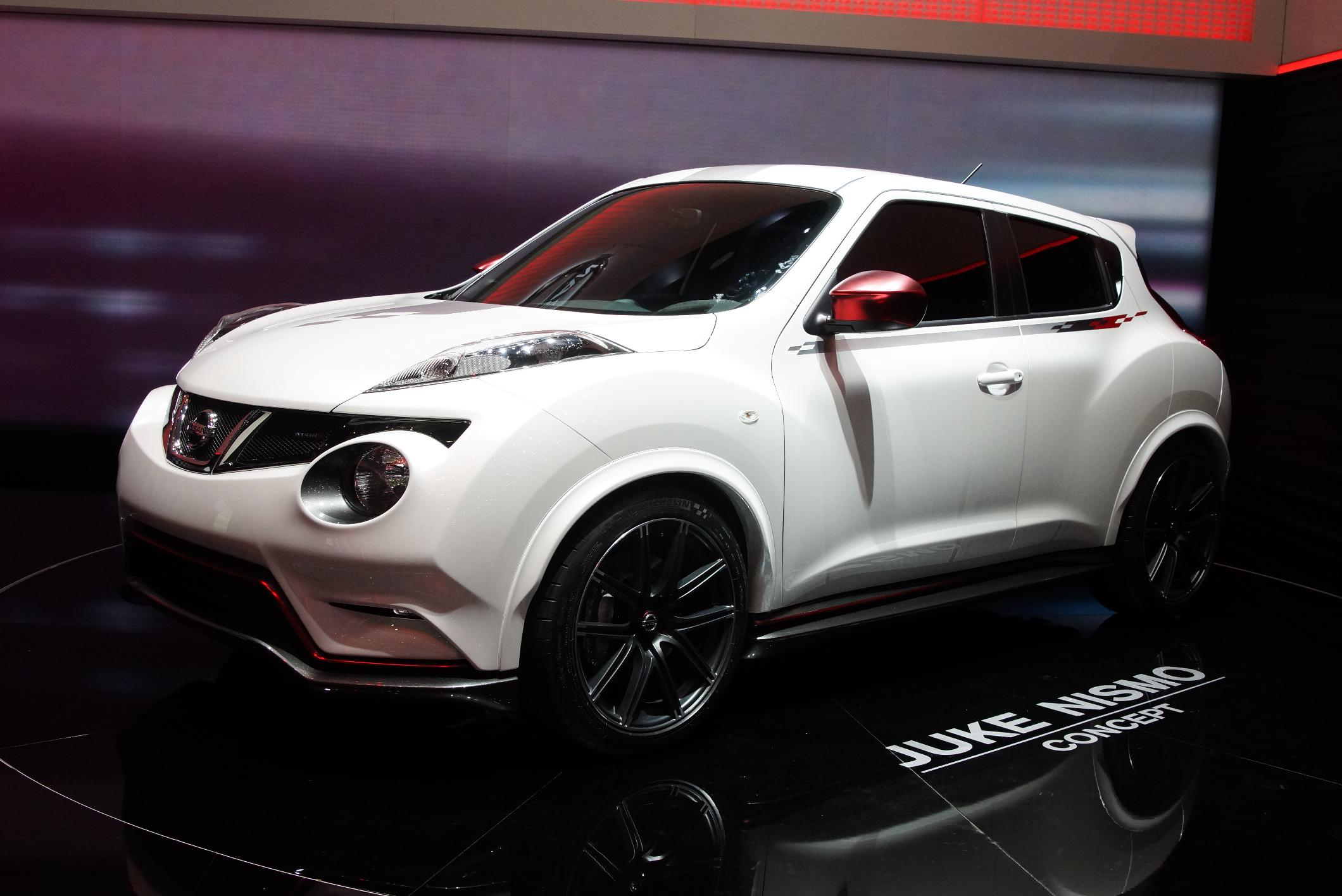 There was plenty of high-end metal being unveiled at the Geneva Motor Show, but the likes of the one-off Lamborghini Aventador J, the Ferrari F12 Berlinetta, and the Maserati GranTurismo Sport, and others weren’t the real show stoppers... there were plenty of the big-end players downsizing: Mercedes-Benz A-Class, Audi A3, Volvo V40, and much more. Here’s what flicked our switch. You can check out more on the 2012 Geneva Motor Show here at; as well as